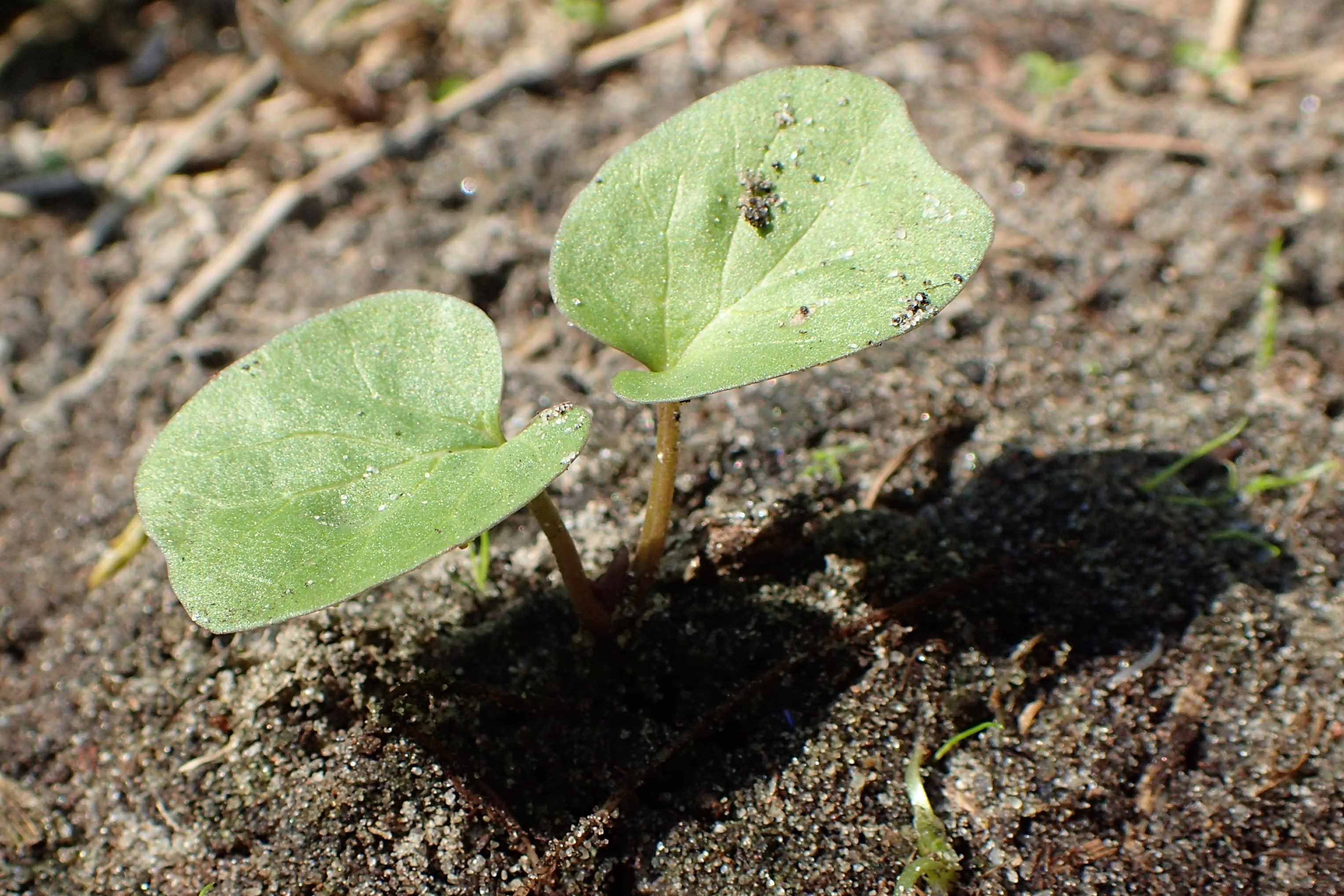 Calystegia sepium seedling on Plonia river in Szczecin Dąbie (NW Poland)